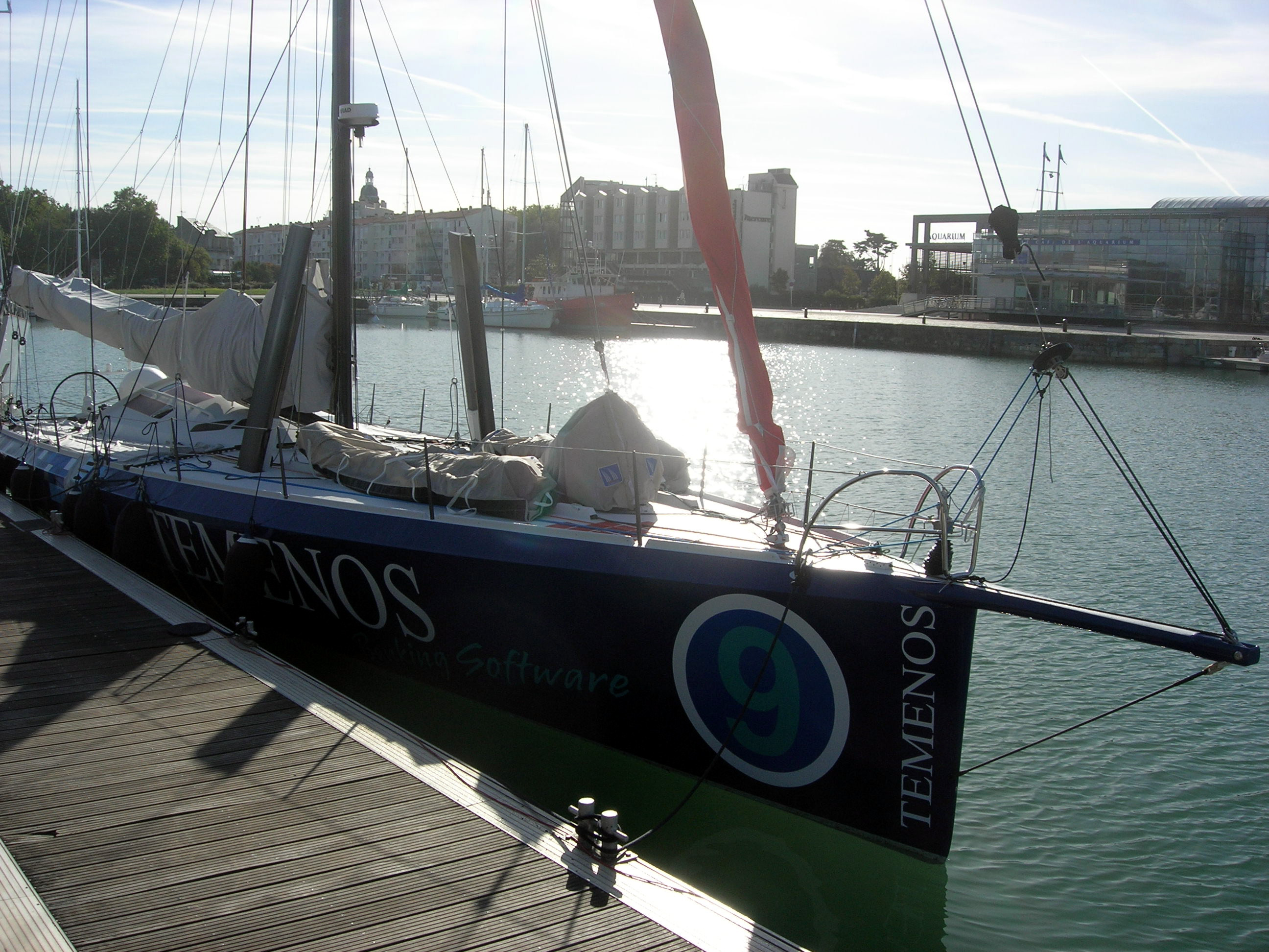 Description =Temenos dans le port de la Rochelle Source =Photo taken by Remi Jouan Date =Octobre 2006 Author =Remi Jouan